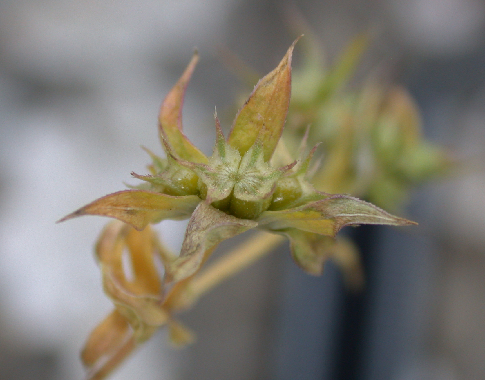 fruit of Sherardia arvensis L. (ששית מצויה, שררדיה מצויה), Upper Galilee, Israel, April 2008.